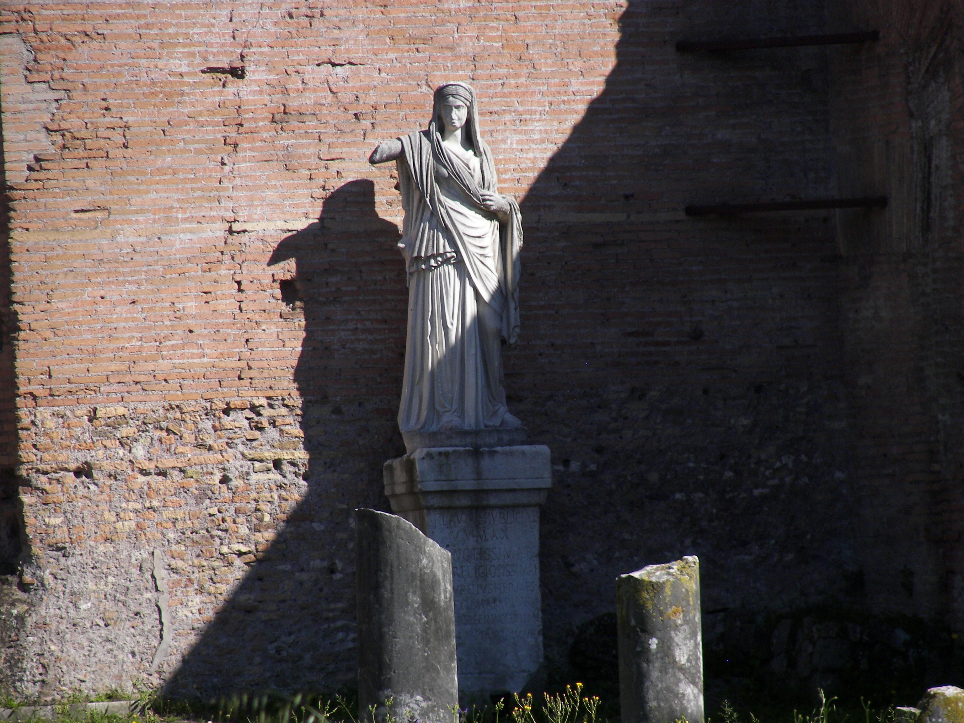 Statue of Flavia Publicia near the southeastern corner of the House of the Vestals in the Forum Romanum in Rome. Inscription is catalogued as CIL VI 32417.